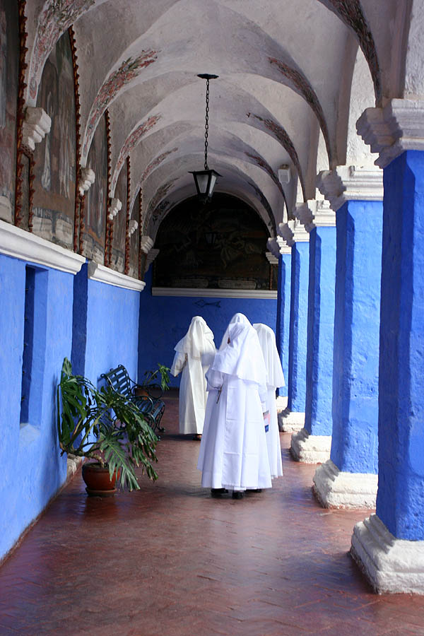 The Cloisters and Nuns at the Santa Catalina Monastery, Arequipa, Peru